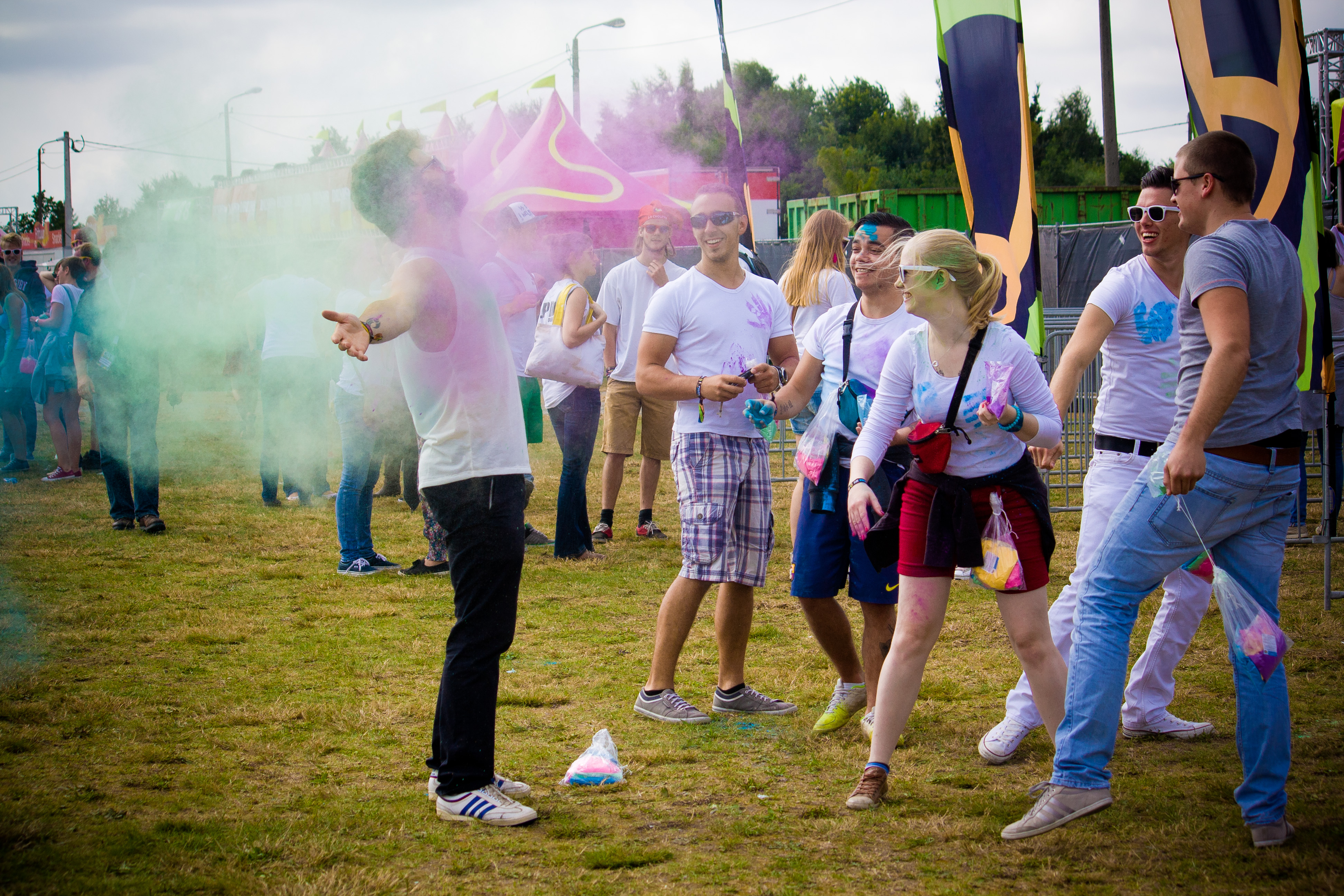 More pictures of the holi festival